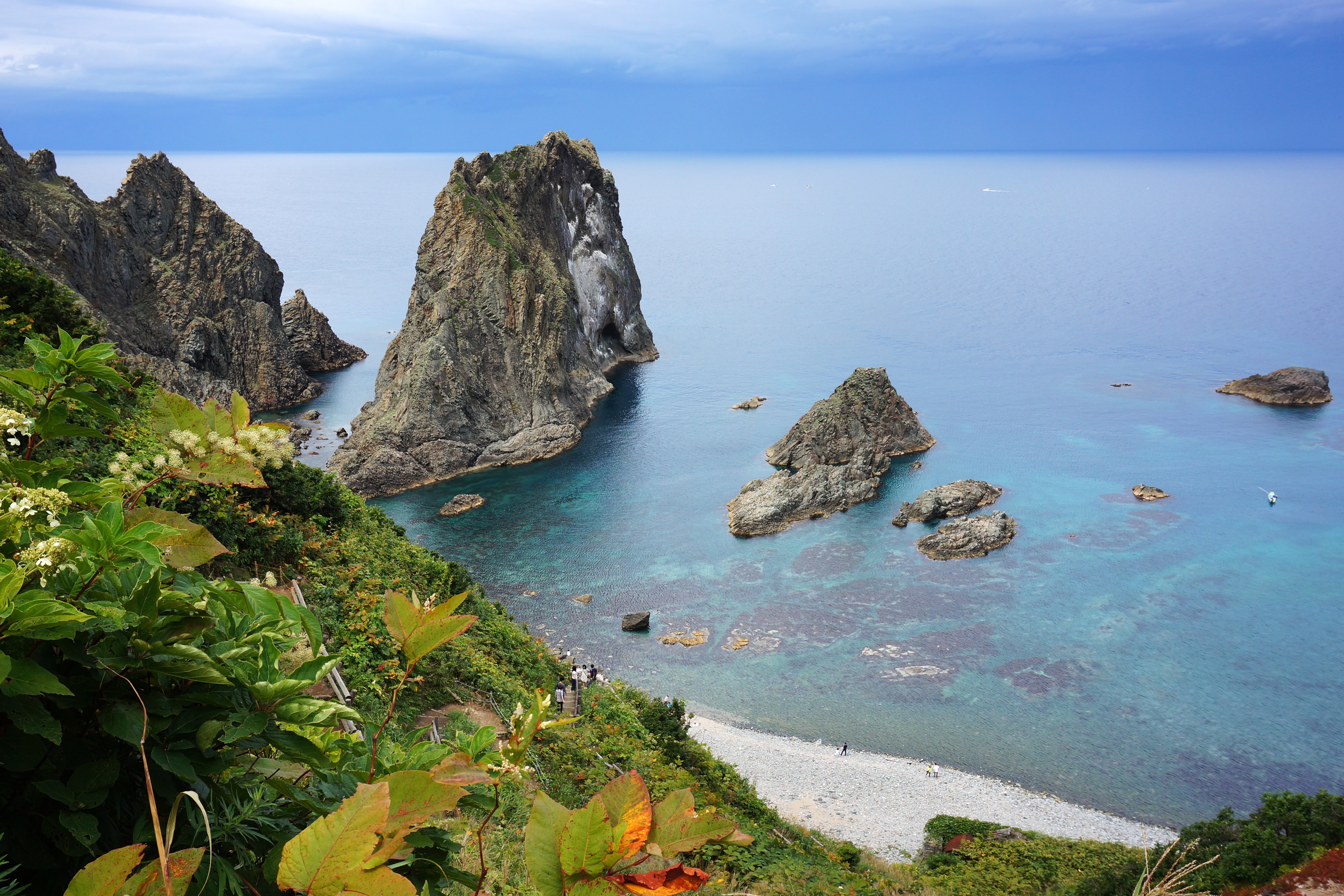 Shimamui Coast in Shakotan, Hokkaido prefecture, Japan.